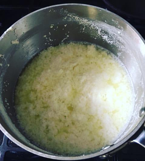 homemade fresh #cheese - 1. Cook and curdle milk - 2. Strain - 3. Season and Serve #cooking